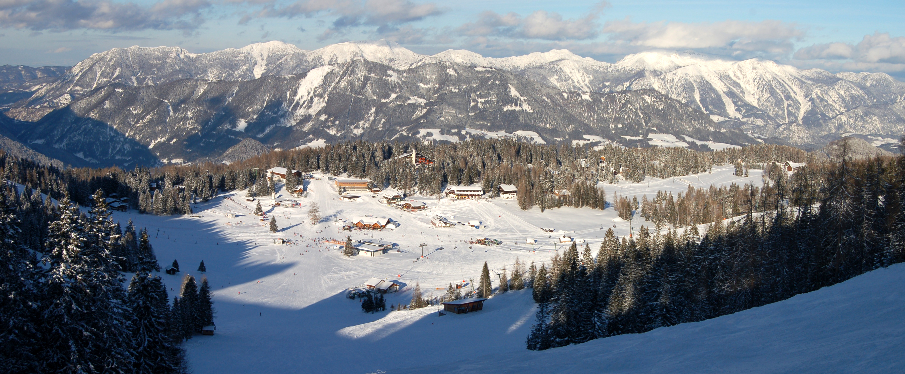 Hutterer Böden in the skiing area of Hutterer Höss in Hinterstoder, Upper Austria. See annotations for details.